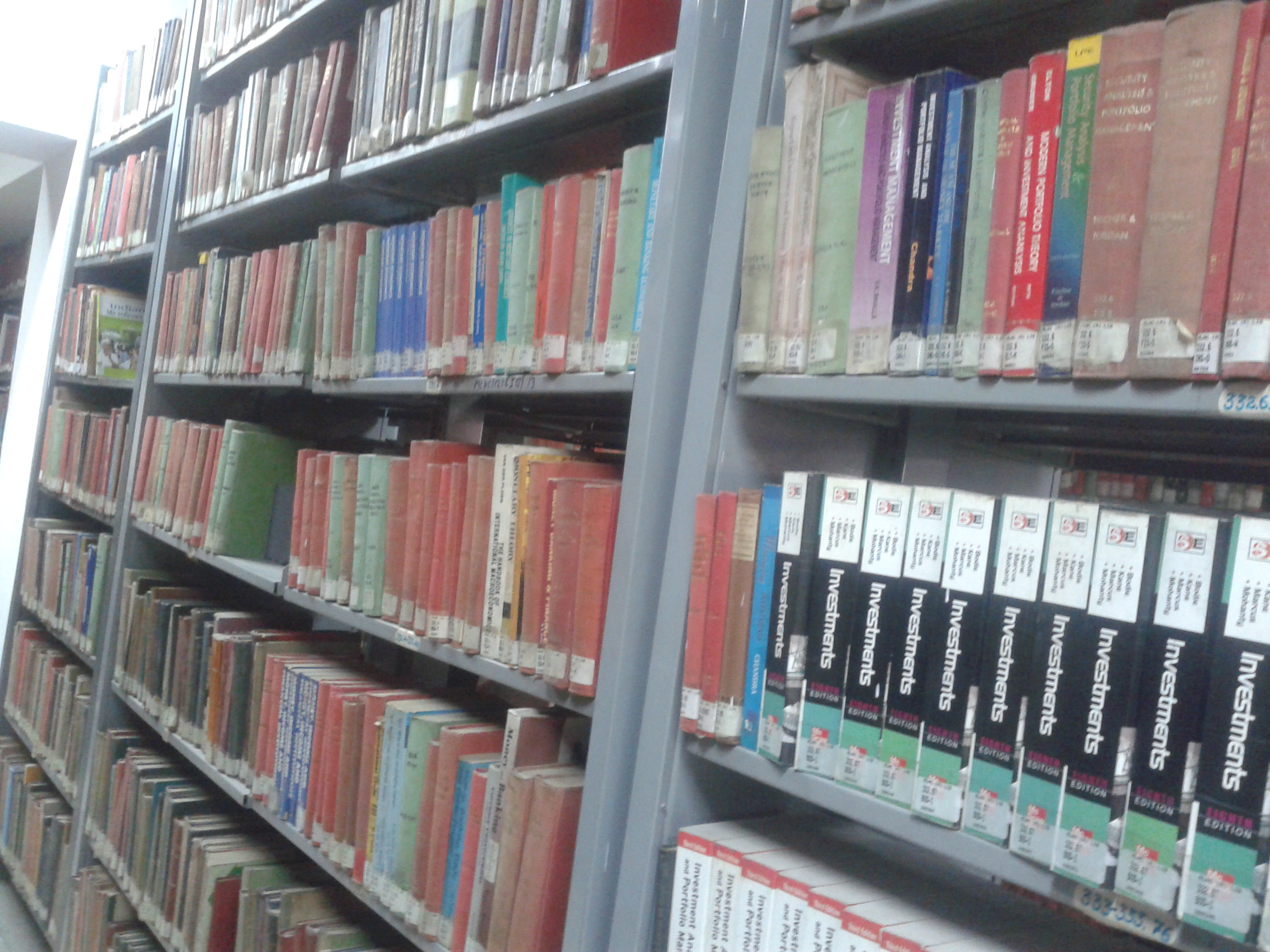 Books in the college library of motilal nehru college